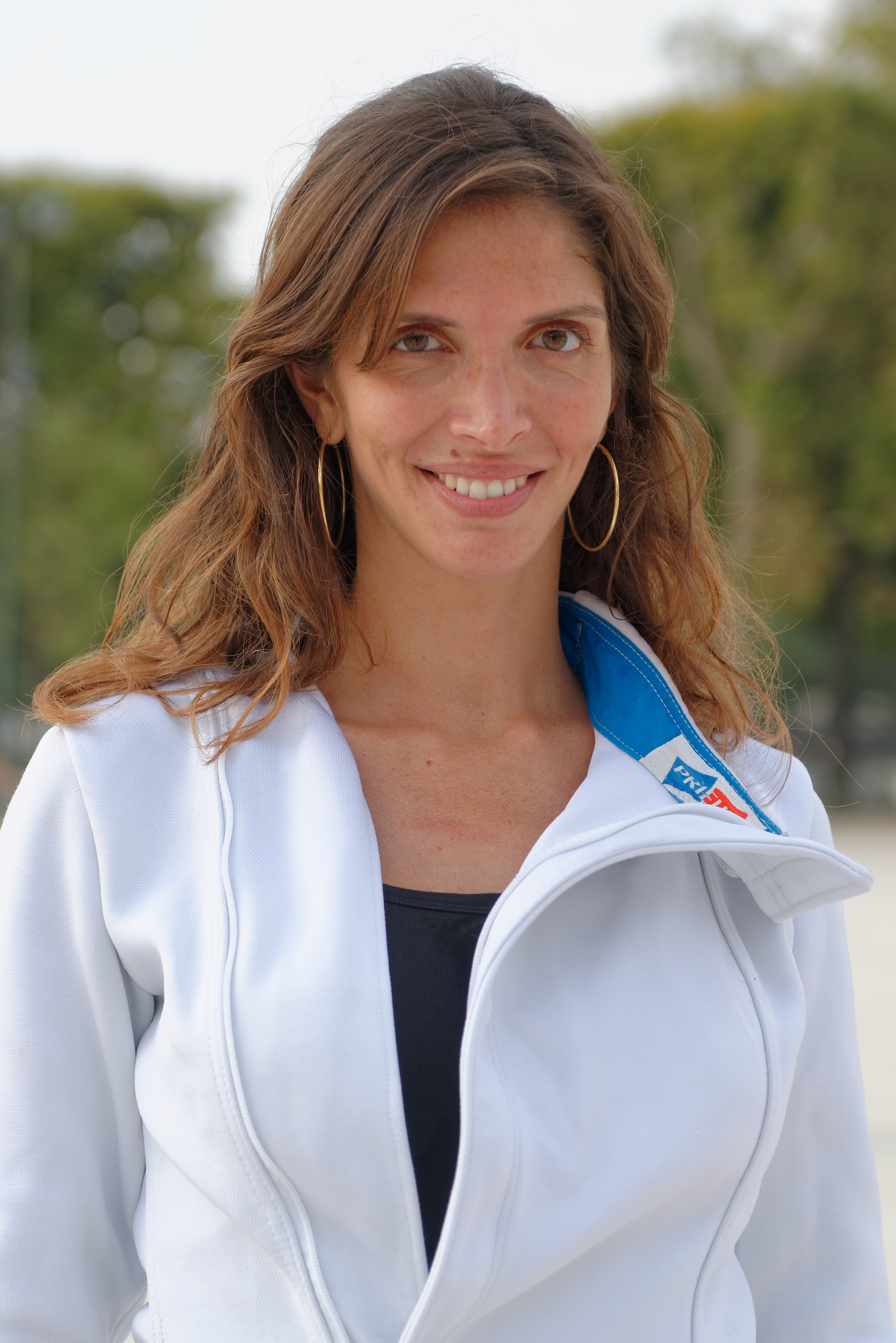 Brazilian fencer Nathalie Moellhausen at a fencing flash mob in front of the Ecole Militaire in Paris on 7 September 2013.